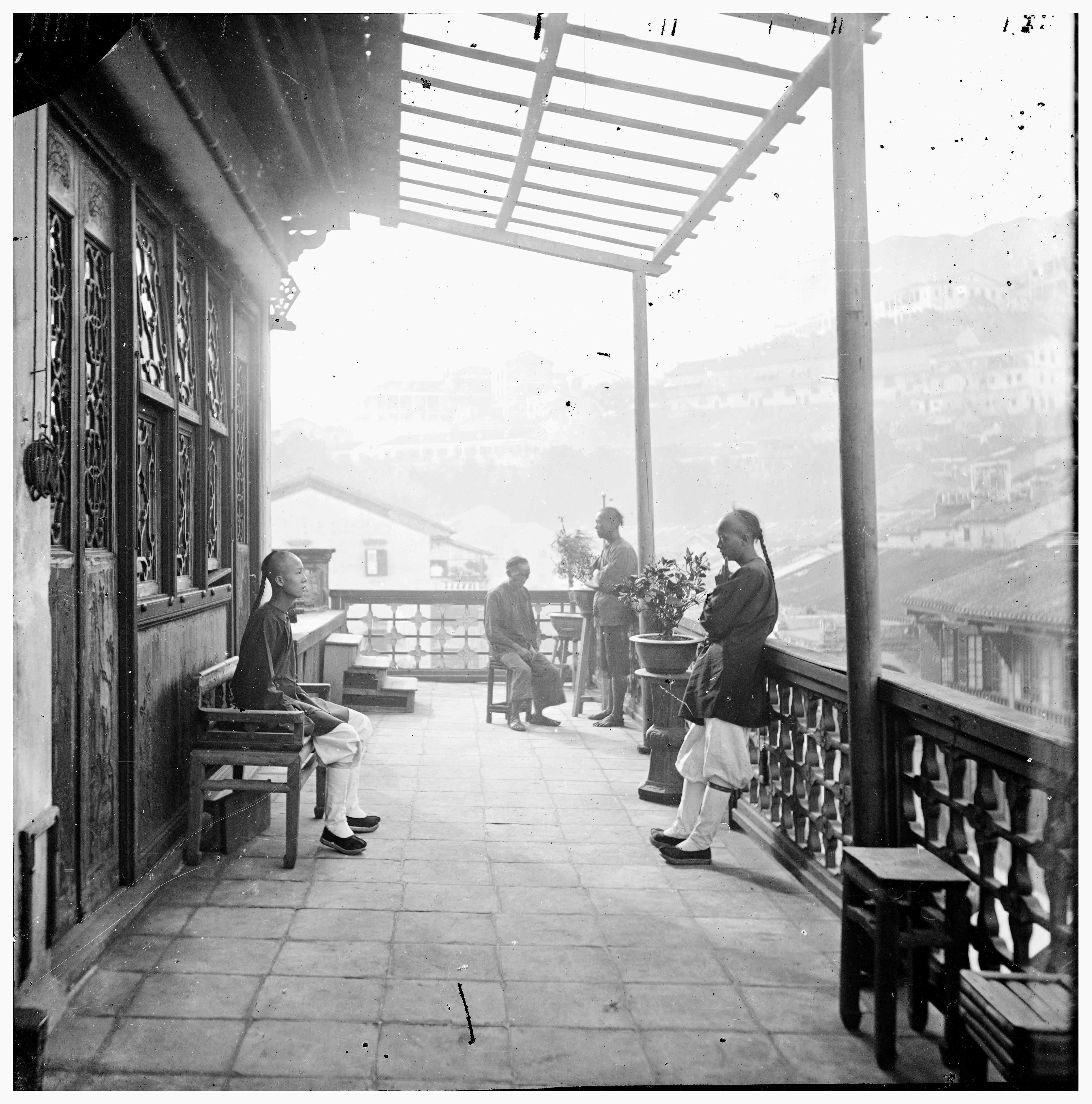 Chinese tea-house, Hong Kong. Photograph by John Thomson, 1868/1871. Tea drinking has been an important feature in southern China for a long time. In the second half of the 19th century, as an influx of Chinese merchants and labourers moved to Hong Kong, commercial teahouses flourished in response to the rising demand. There were various types of teahouses that catering for different classes. Many of them not only served tea and snacks but also offered opium for smoking, as well as female attendants. This one is a typical middle-range teahouse with an open veranda. Iconographic Collections Keywords: J. Thomson